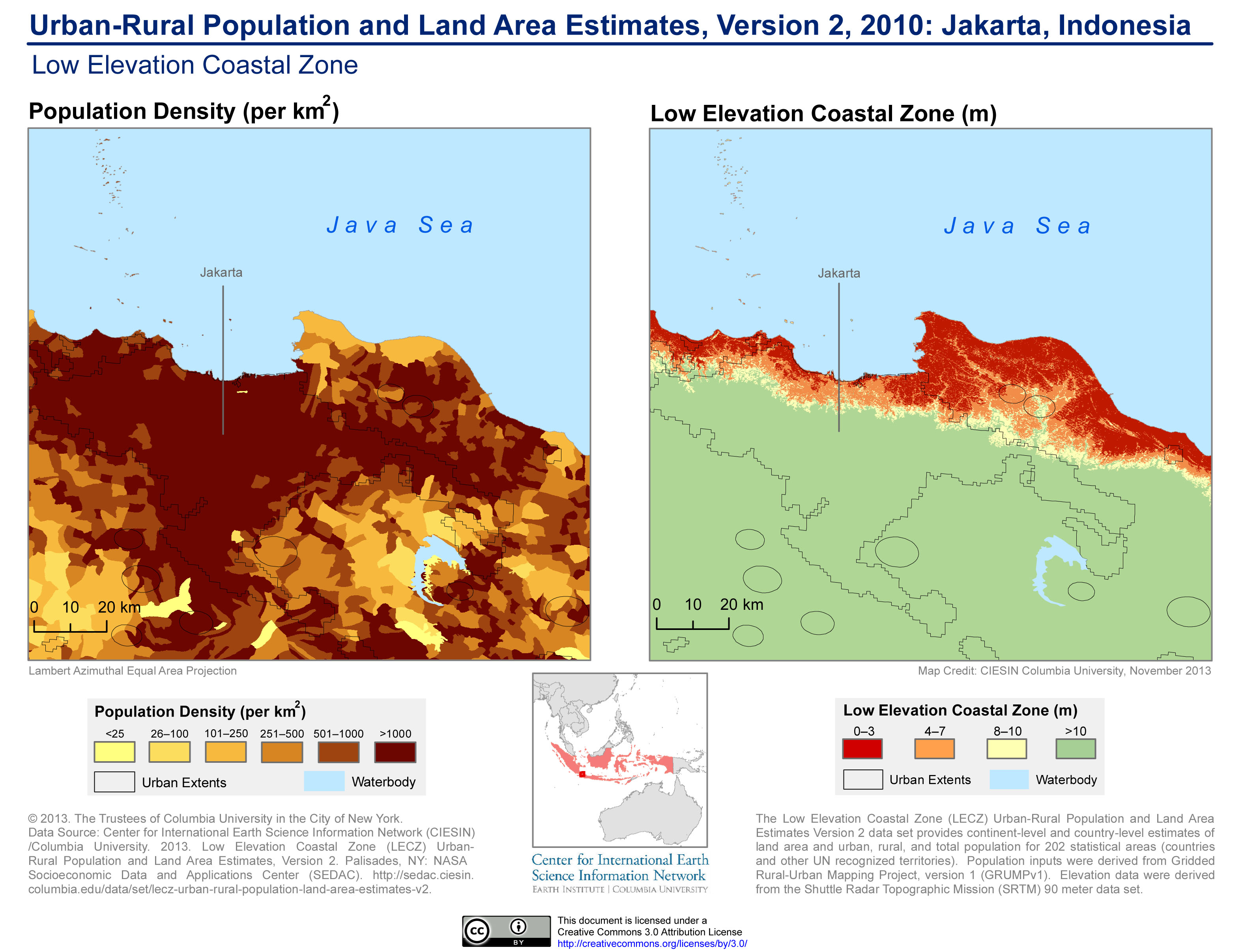 The Low Elevation Coastal Zone (LECZ) Urban-Rural Population and Land Area Estimates Version 2 dataset provides continent-level and country-level estimates of land area and urban, rural, and total population for 202 statistical areas (countries and other UN recognized territories). Population inputs were derived from Gridded Rural-Urban Mapping Project, Version 1 (GRUMPv1). Elevation data were derived from the Shuttle Radar Topographic Mission (SRTM) 90 meter dataset.